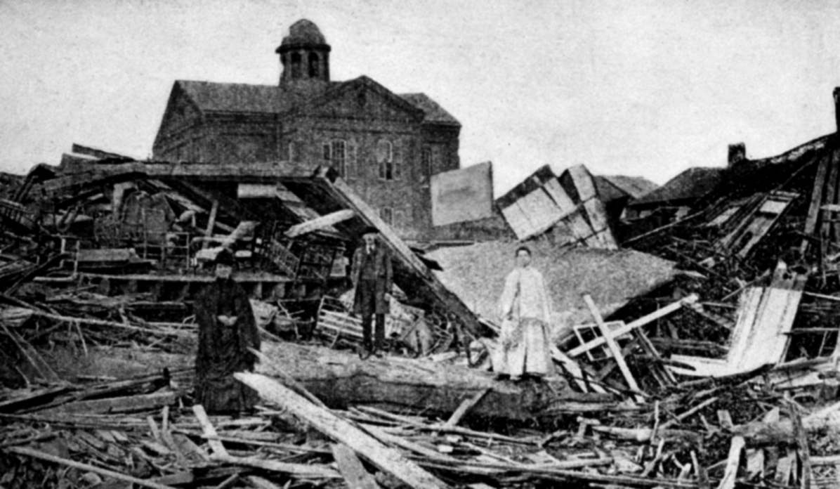 Homes in Galveston were reduced to timbers by the hurricane winds and floods caused by the Galveston Hurricane of 1900.